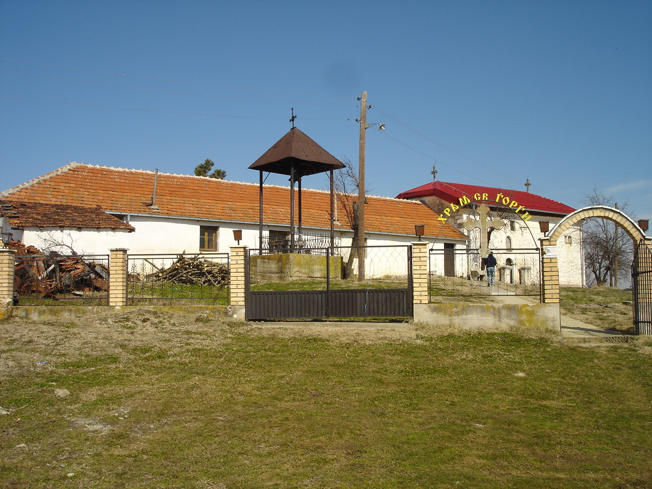 the church in village of Vasharejca, near Bitola, Macedonia